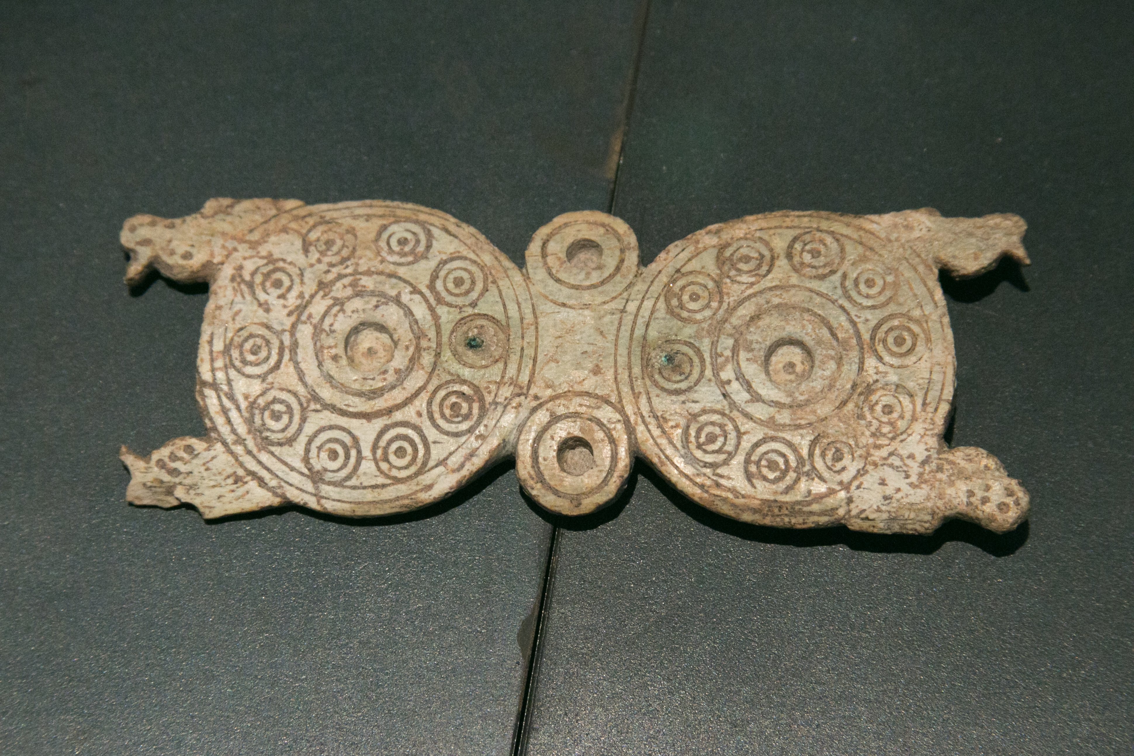 Decorative buckle, ivory, 600-575 BC. Finding from the sanctuary at Vryokastro on Kythnos. (Photo from Exhibition "Vanity" in the Archaeological Museum of Mykonos.)